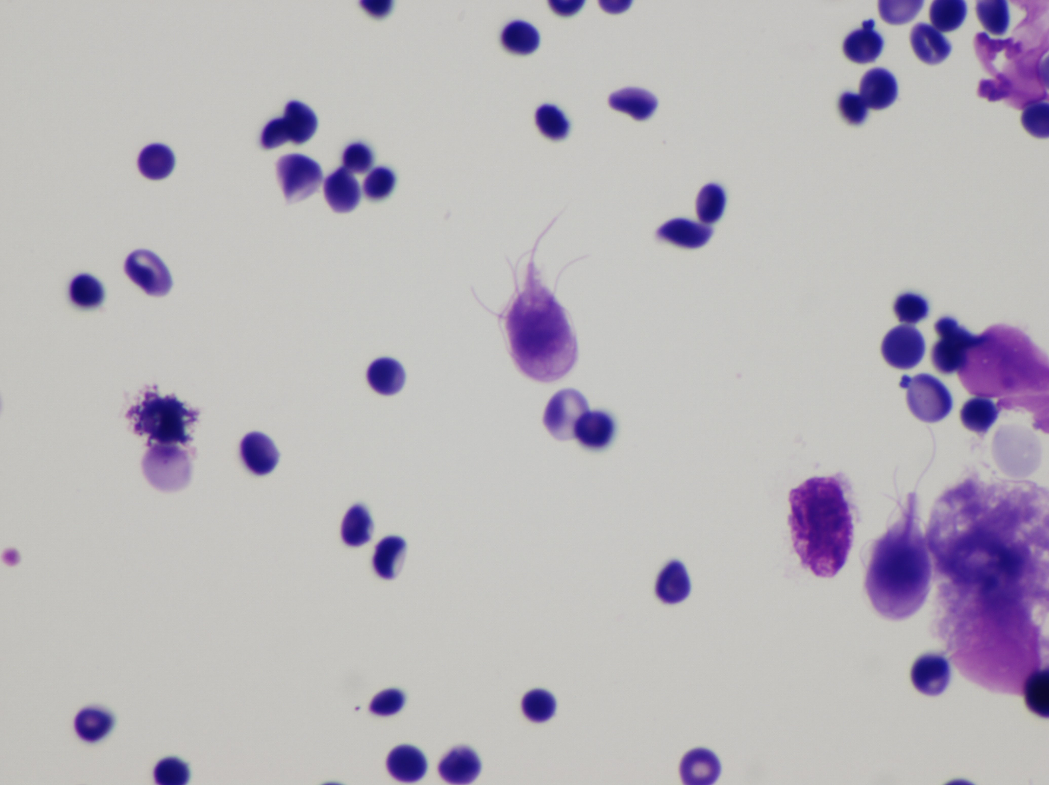 Giardia lamblia seen in a cytologic preparation (cytospin of formalin from small bowel biopsy of a patient with giardia).